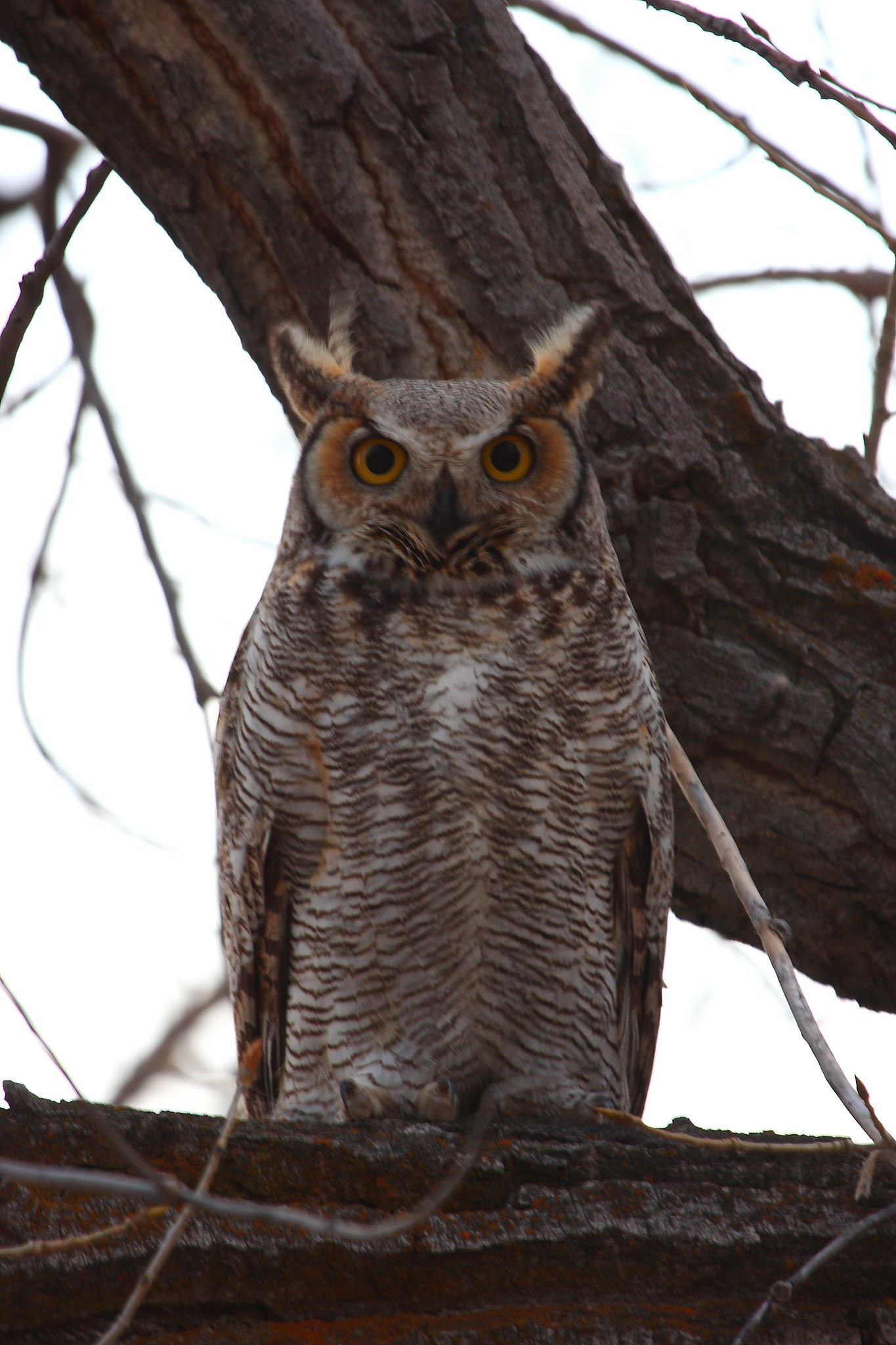 Great Horned Owl in winter, Wyoming